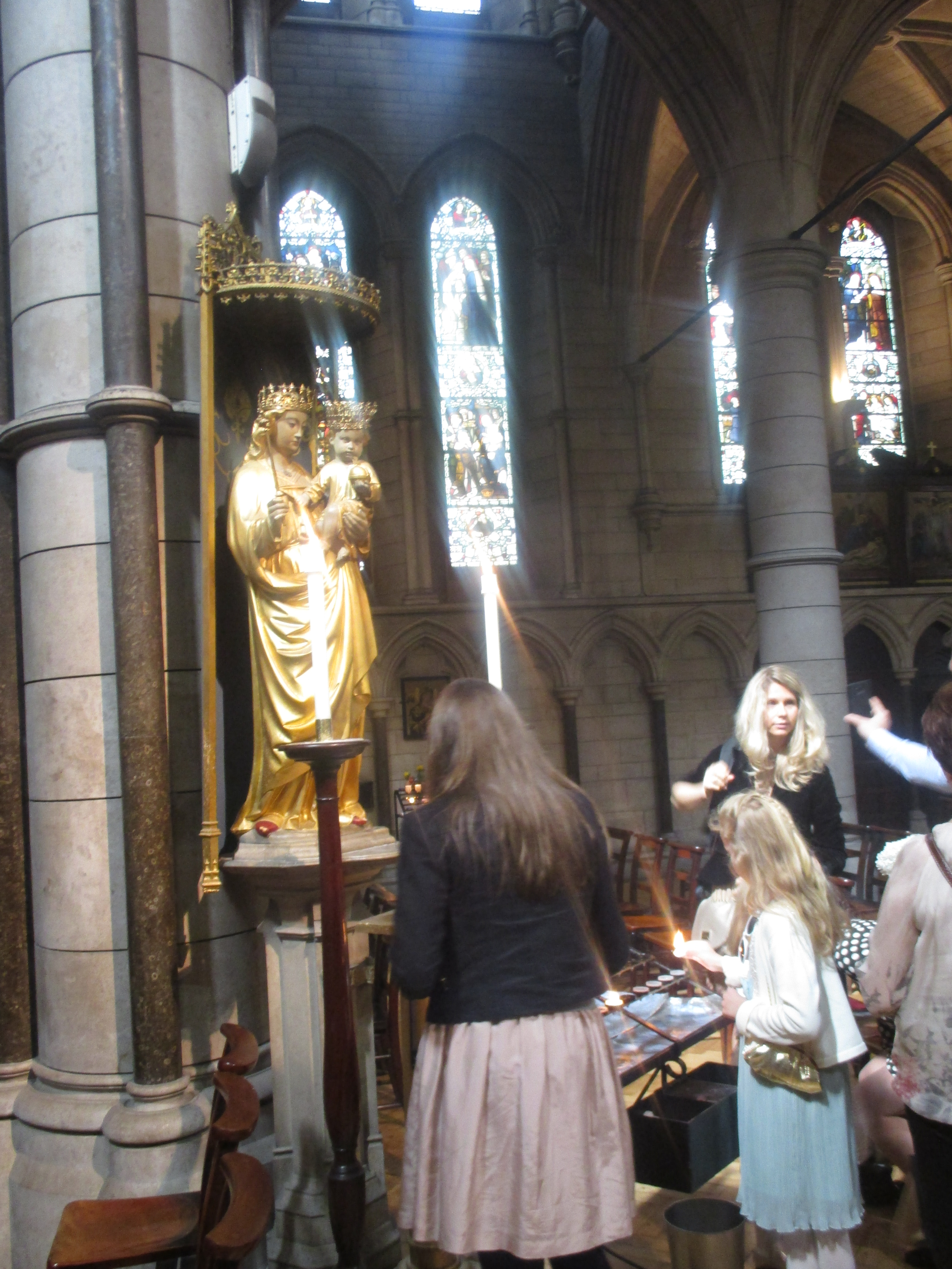 Statue of Our Lady in the Roman Catholic church of Saint James in London (Marylebone).